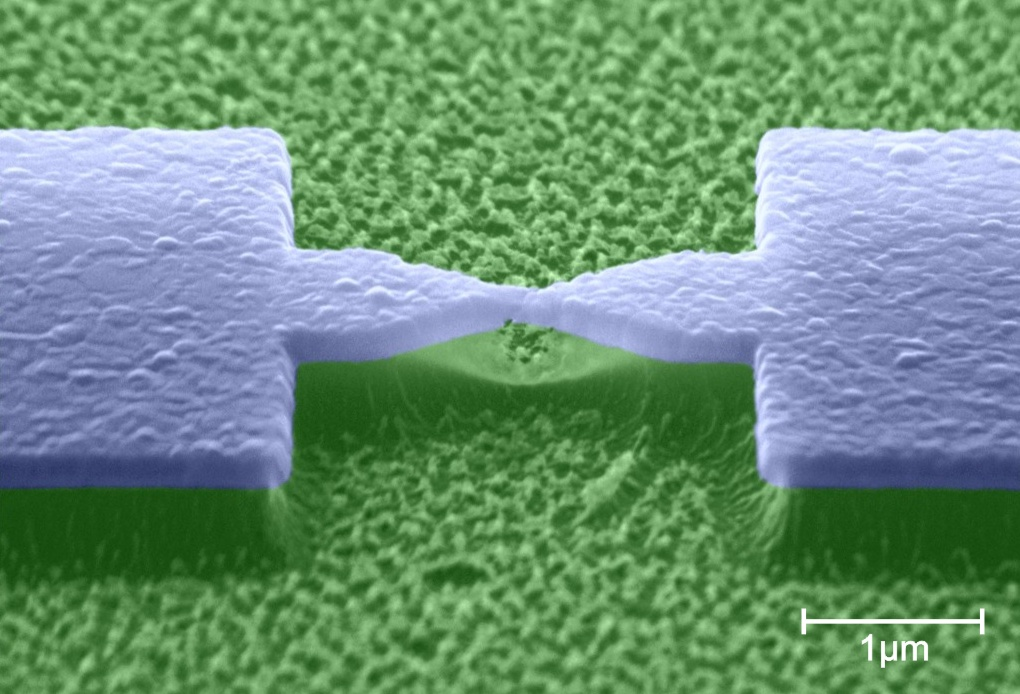 Bridge with 100 nanometer constriction, fabricated by electron beam lithography. Later artificially colorized.